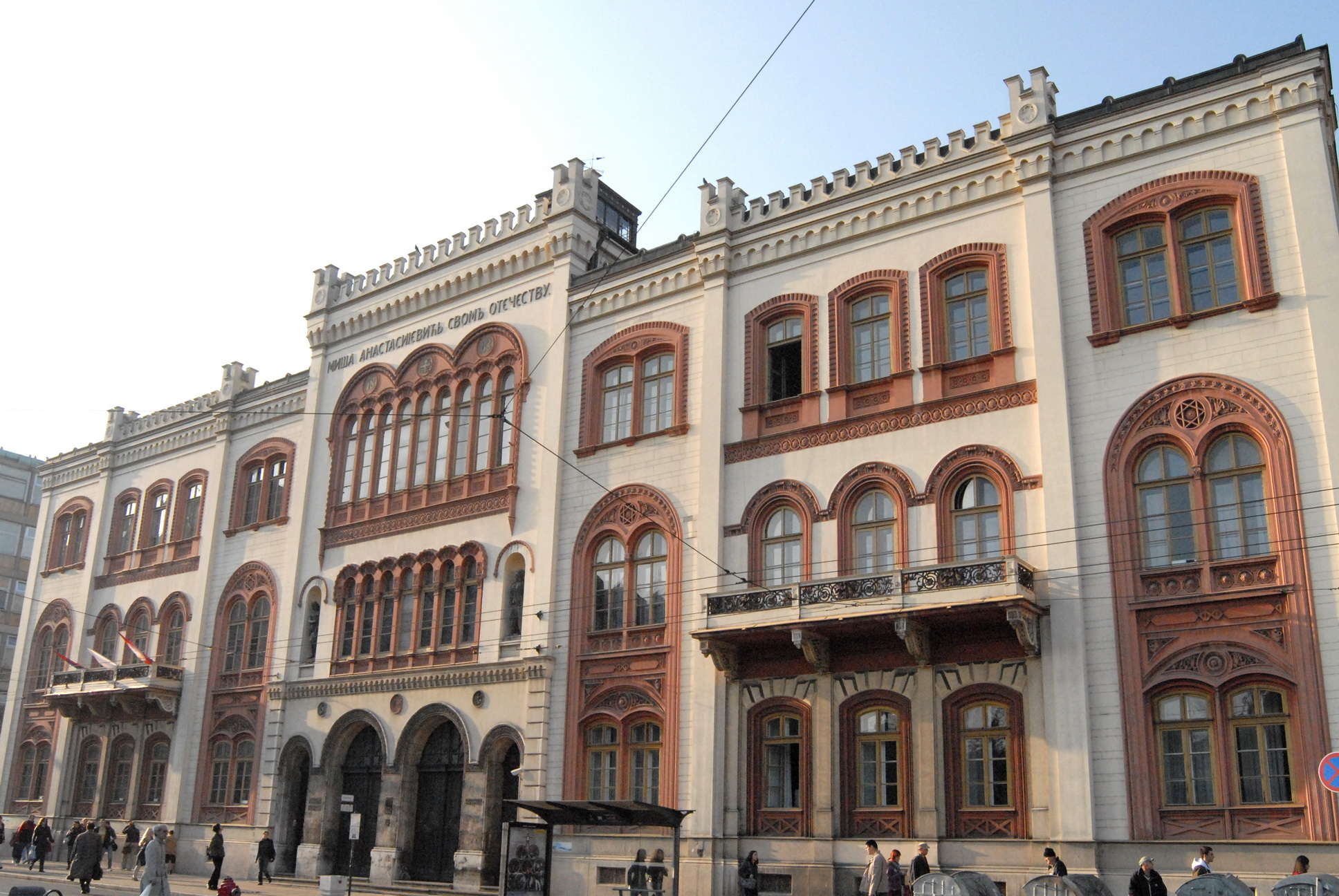 Kapetan Misino Zdanje